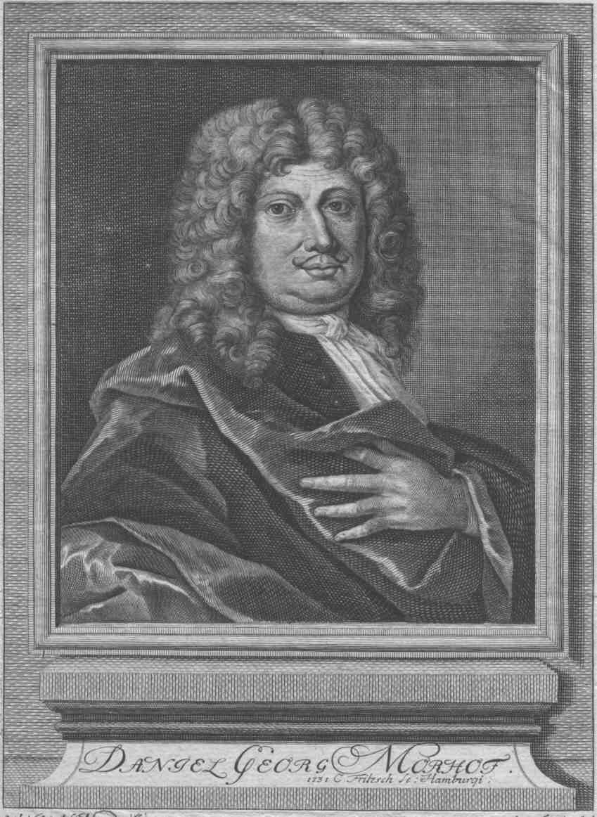 Portrait of Daniel Georg Morhof, copper engraving, picture 194x142 mm